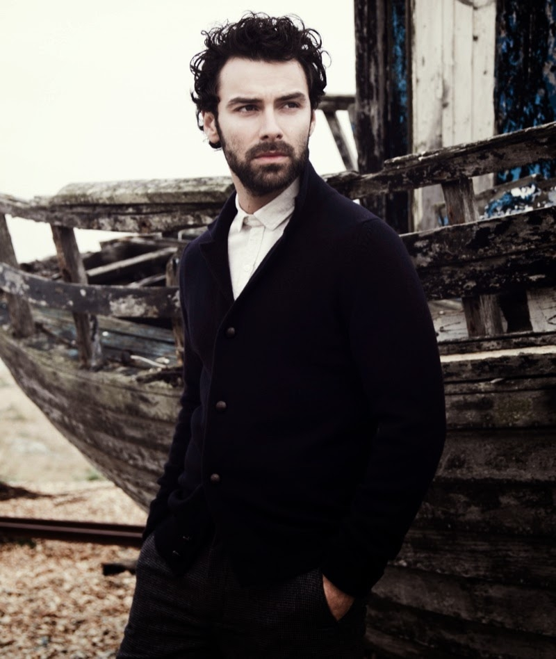 Irish actor Aidan Turner